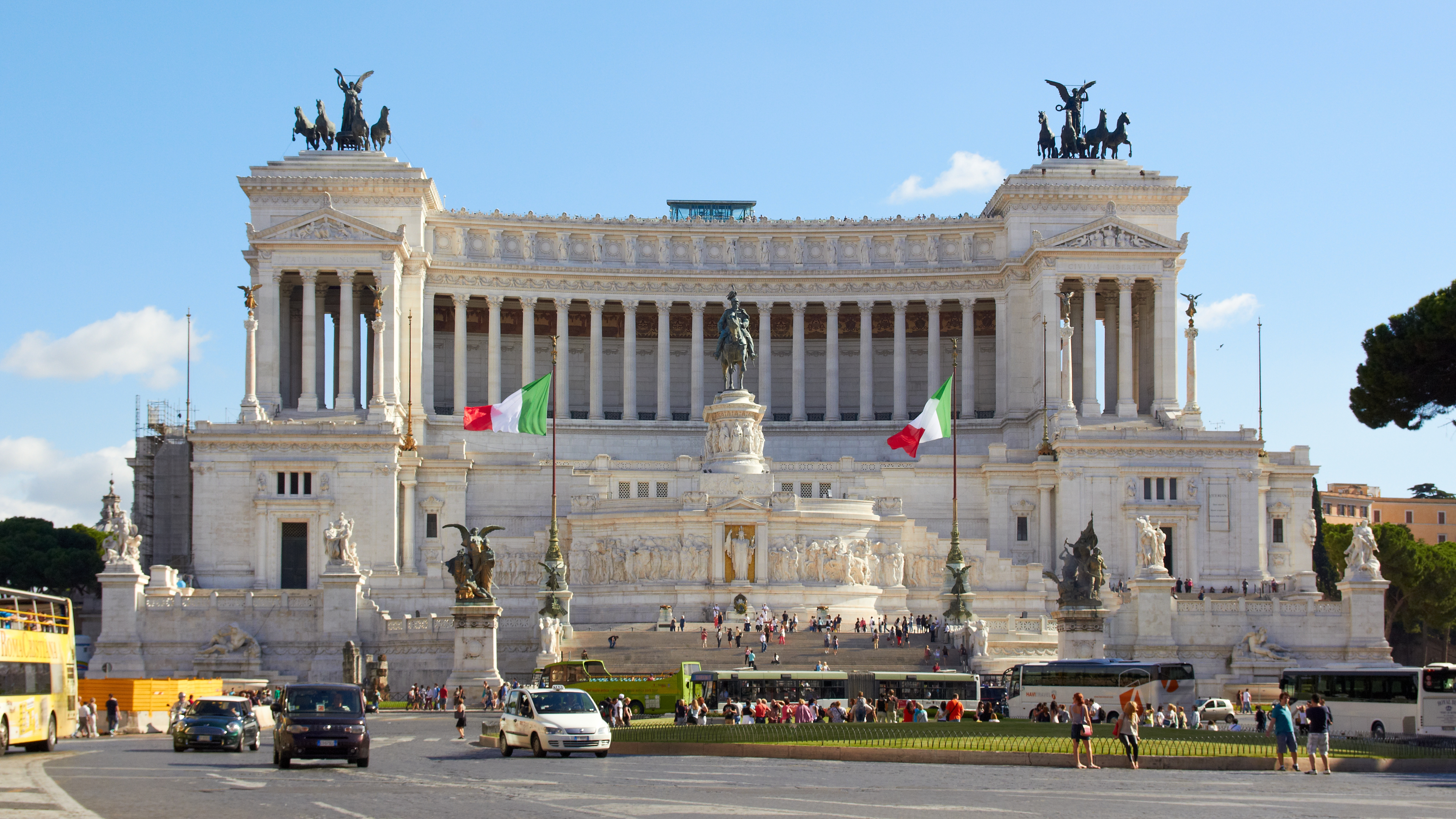 The Vittorio Emmanuele II Monument, Rome, Italy